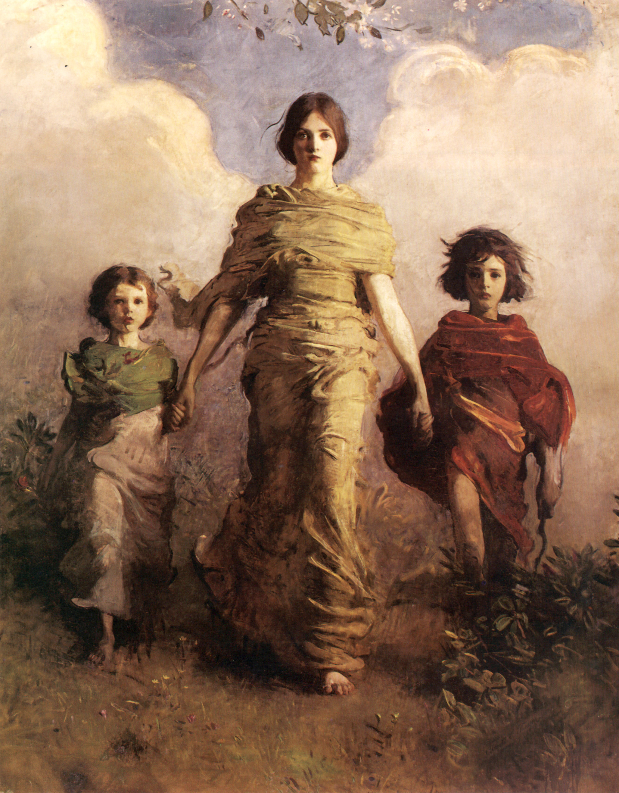 Depicts the artist's daughter and sons